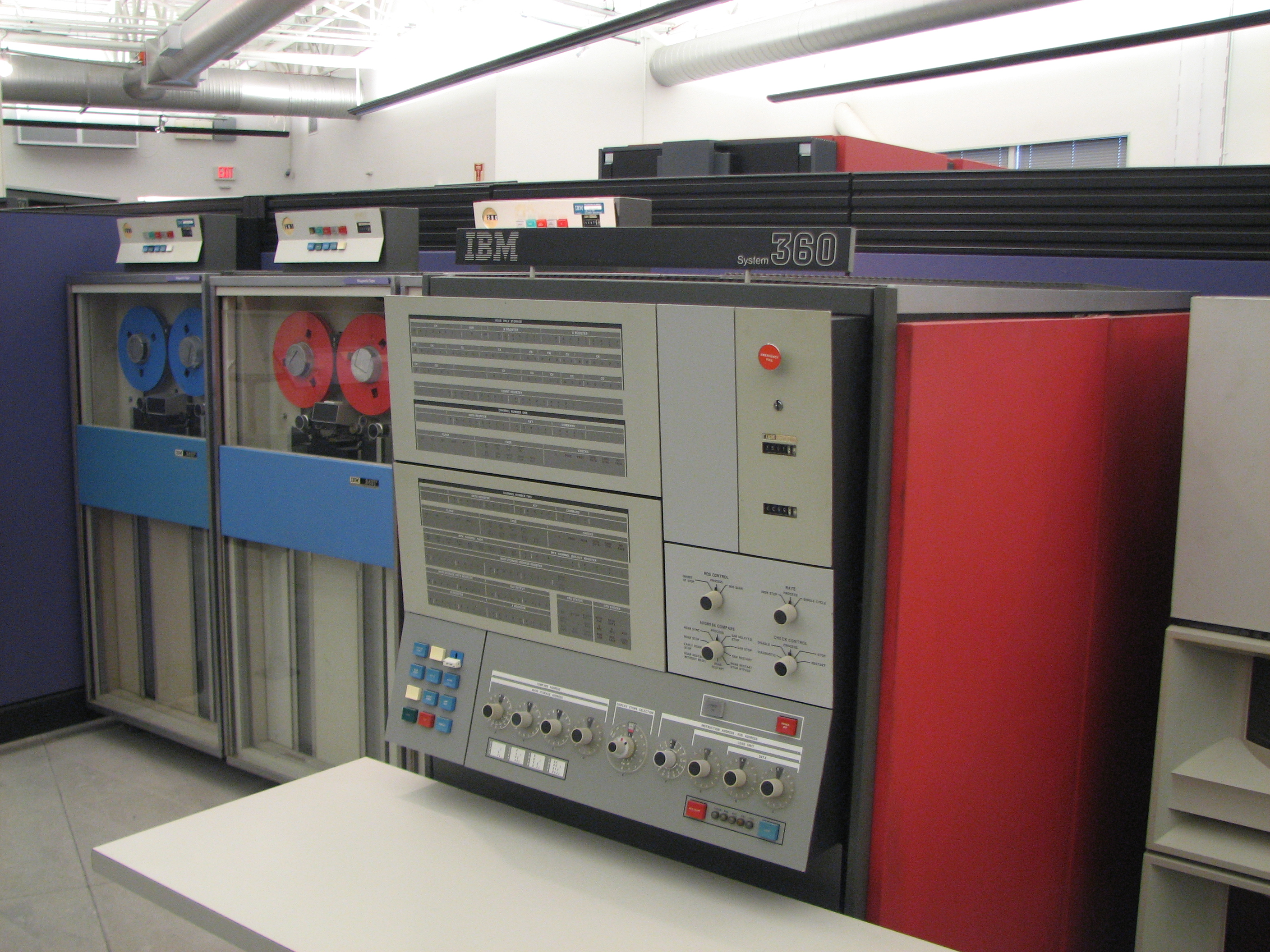 IBM System/360 at the Computer History Museum.